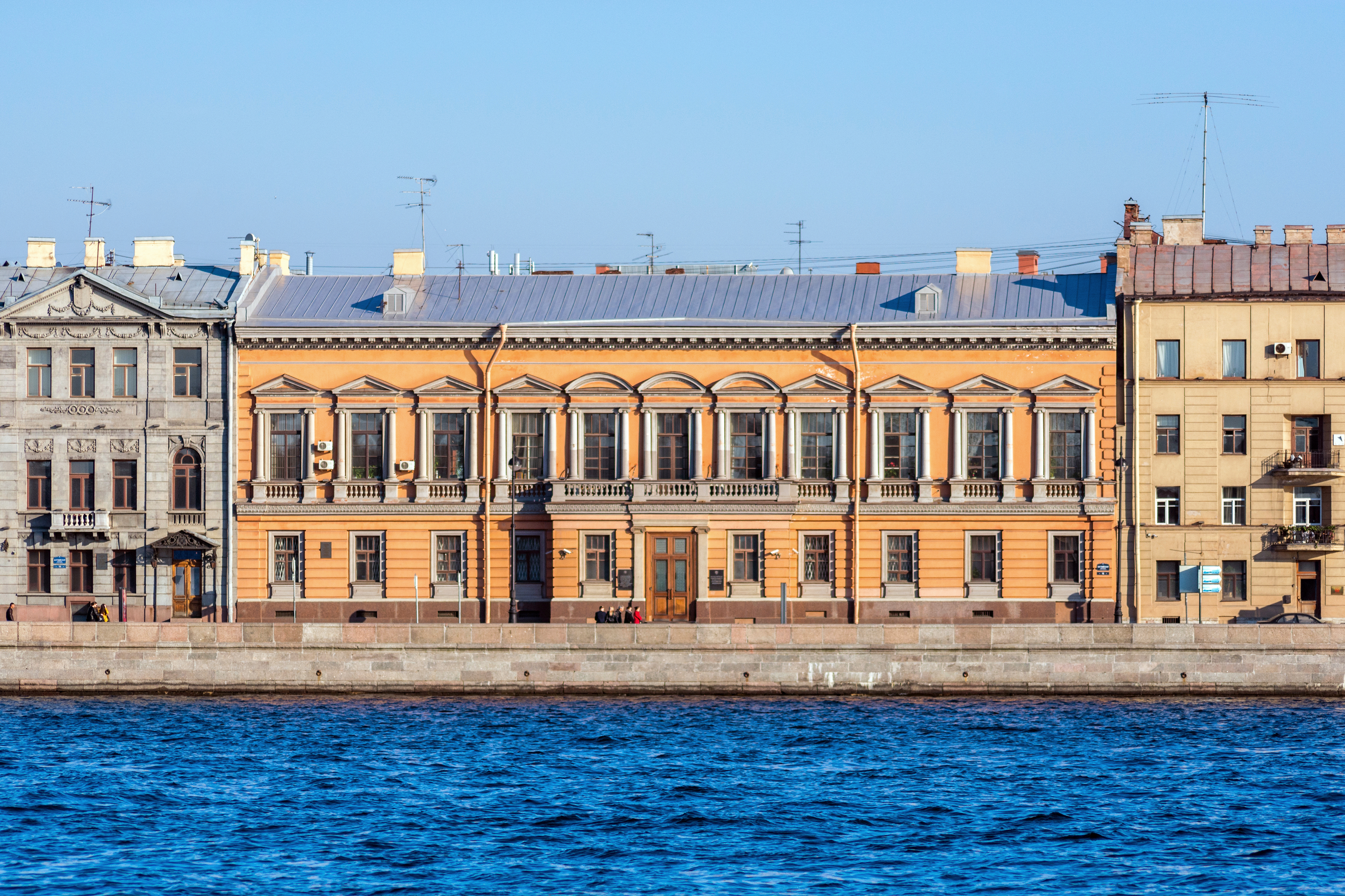 Angliyskaya Embankment in Saint Petersburg, Mansion of Durnovo